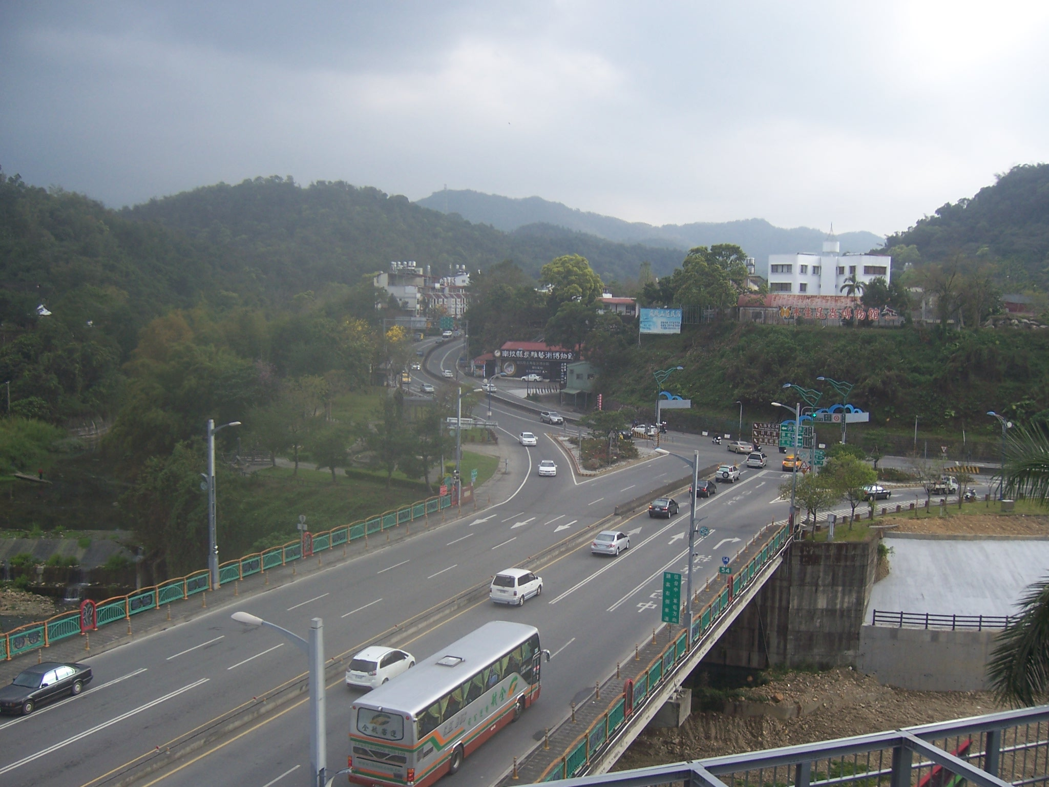 Ailan Bridge at Puli Township, Nantou County, Taiwan